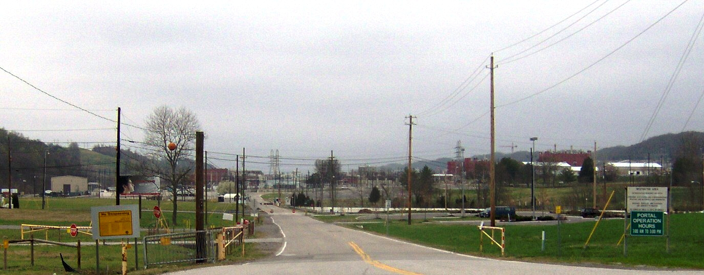 The entrance to the Y-12 plant in Oak Ridge, Tennessee, in the southeastern United States.